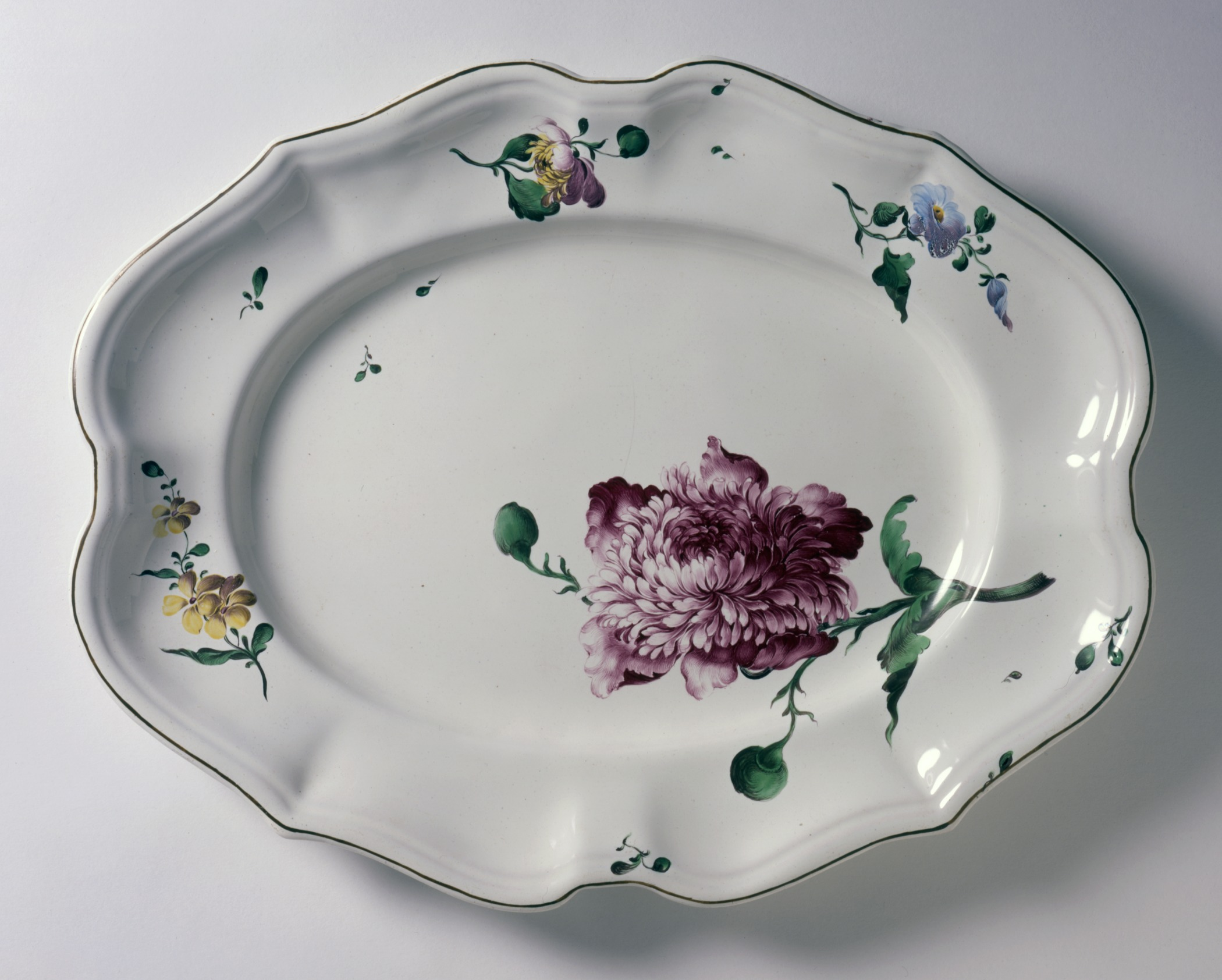 France, circa 1765 Furnishings; Serviceware Tin-glazed earthenware (faience) Purchased with funds provided by Mrs. James Porter Fisk and Los Angeles County (82.1.2) Decorative Arts and Design